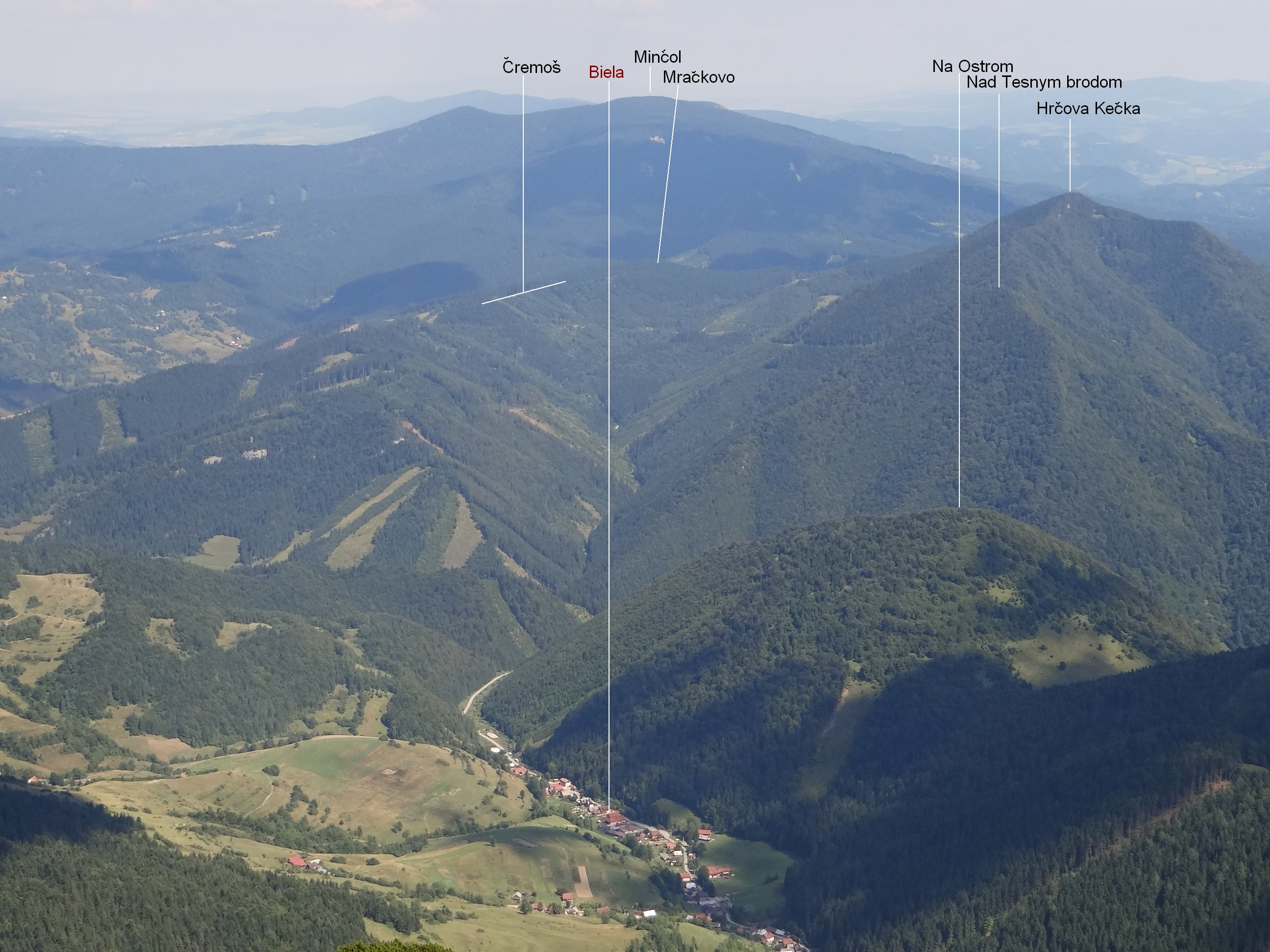 View from Veľký Rozsutec